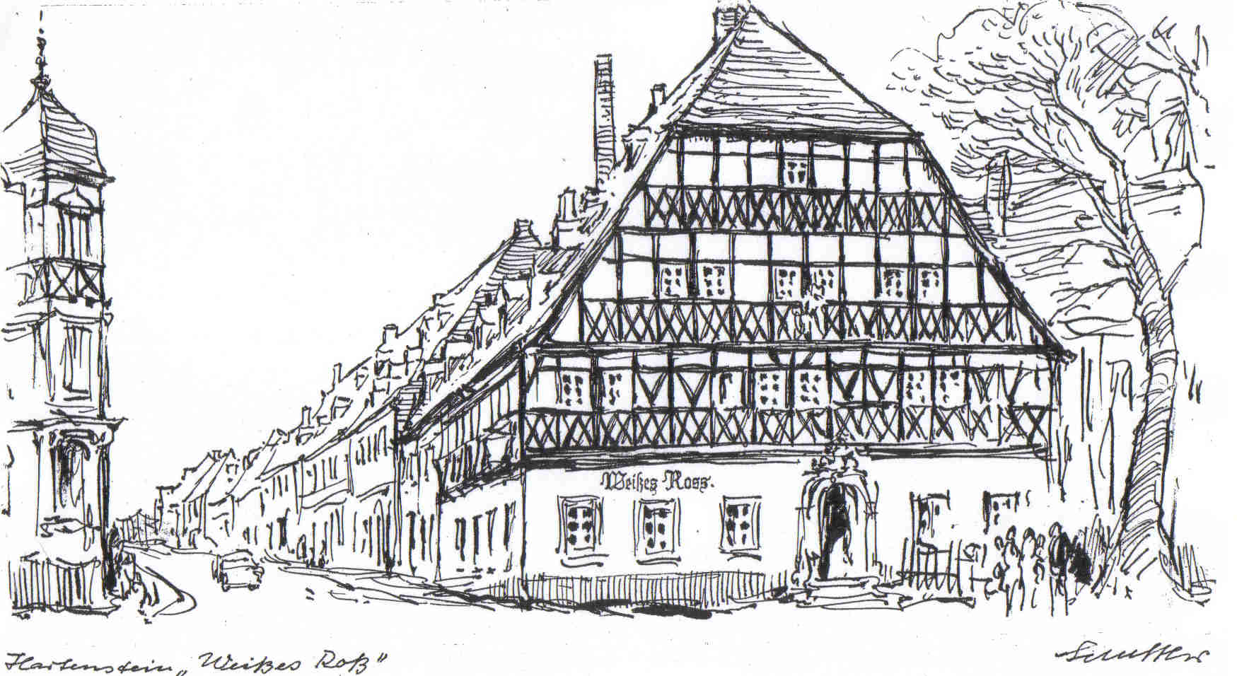 Hartenstein, Guesthouse "Weißes Ross"